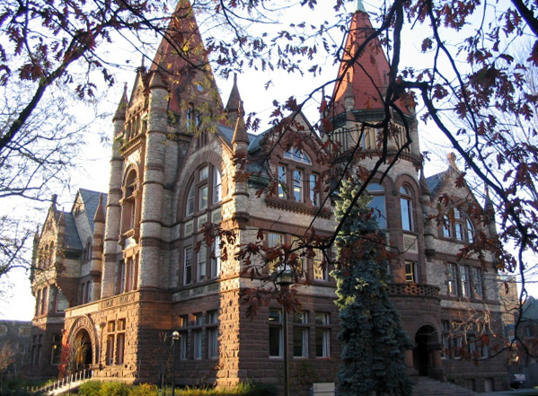 Victoria College in the University Toronto taken in the Fall of 2004 by the uploader.